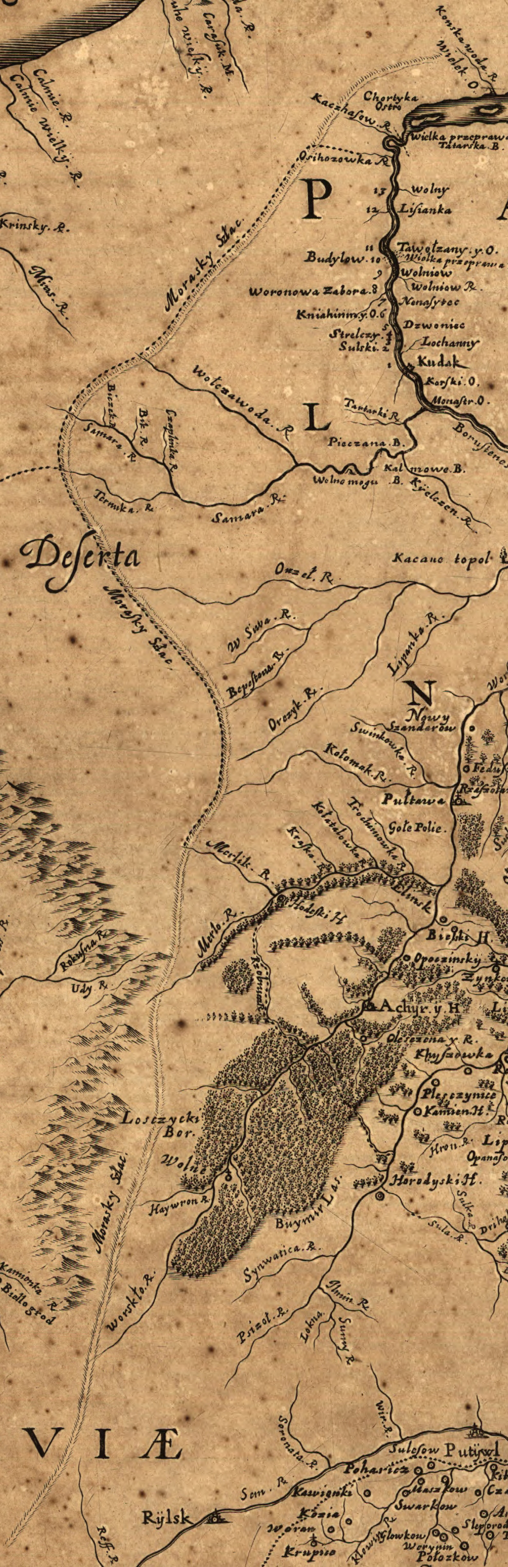 Part of de Boplan's map with "Muravsky Trail"